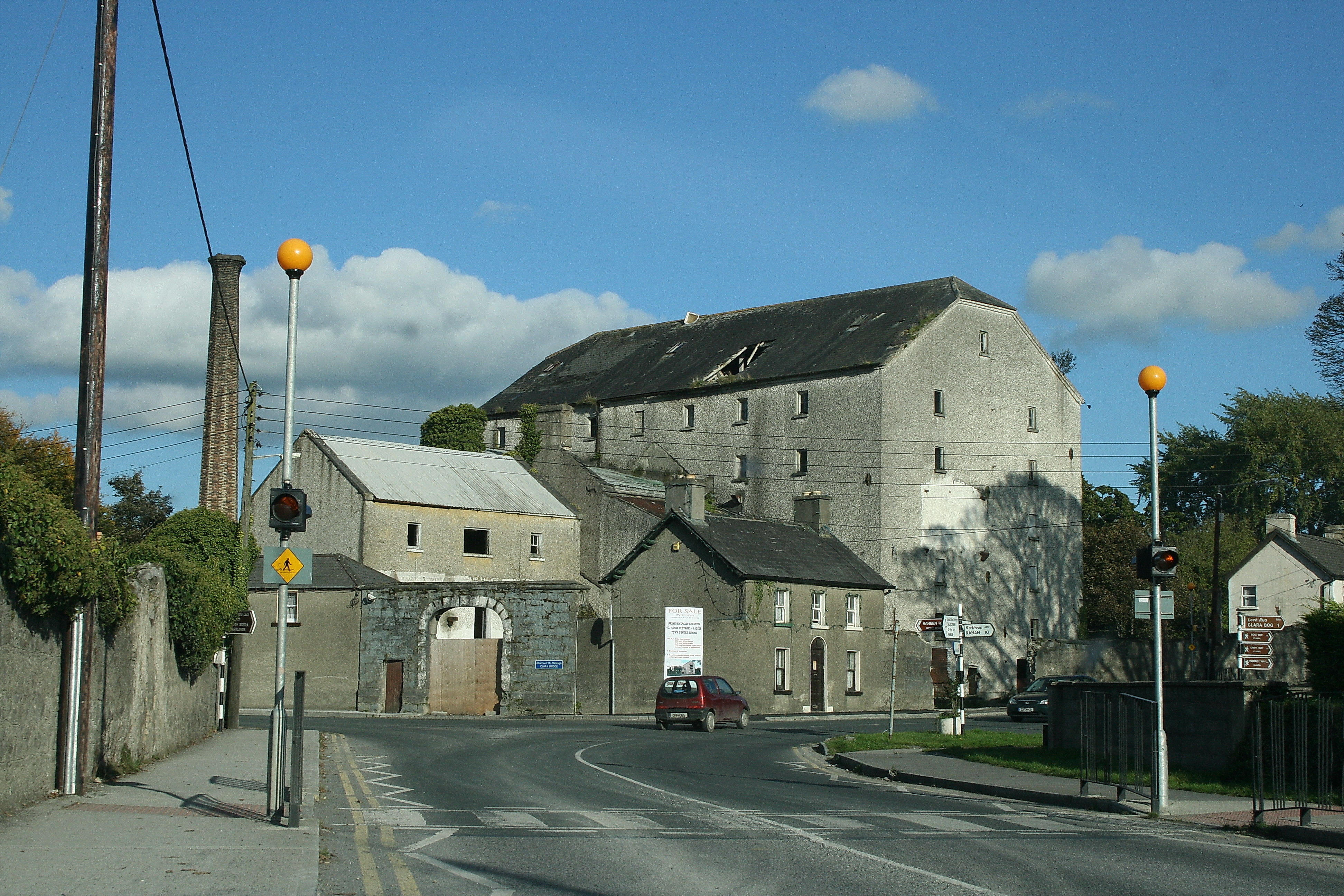 Clara, County Offaly, near to Clara, Charlestown, Erry, Raheen and Bolart Bridge, Offaly, Ireland. Midlands industrial town.